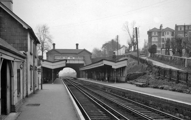 Burgess Hill Station. View northward, towards Haywards Heath, Redhill and London; ex-London, Brighton & South Coast, London - Brighton main line.